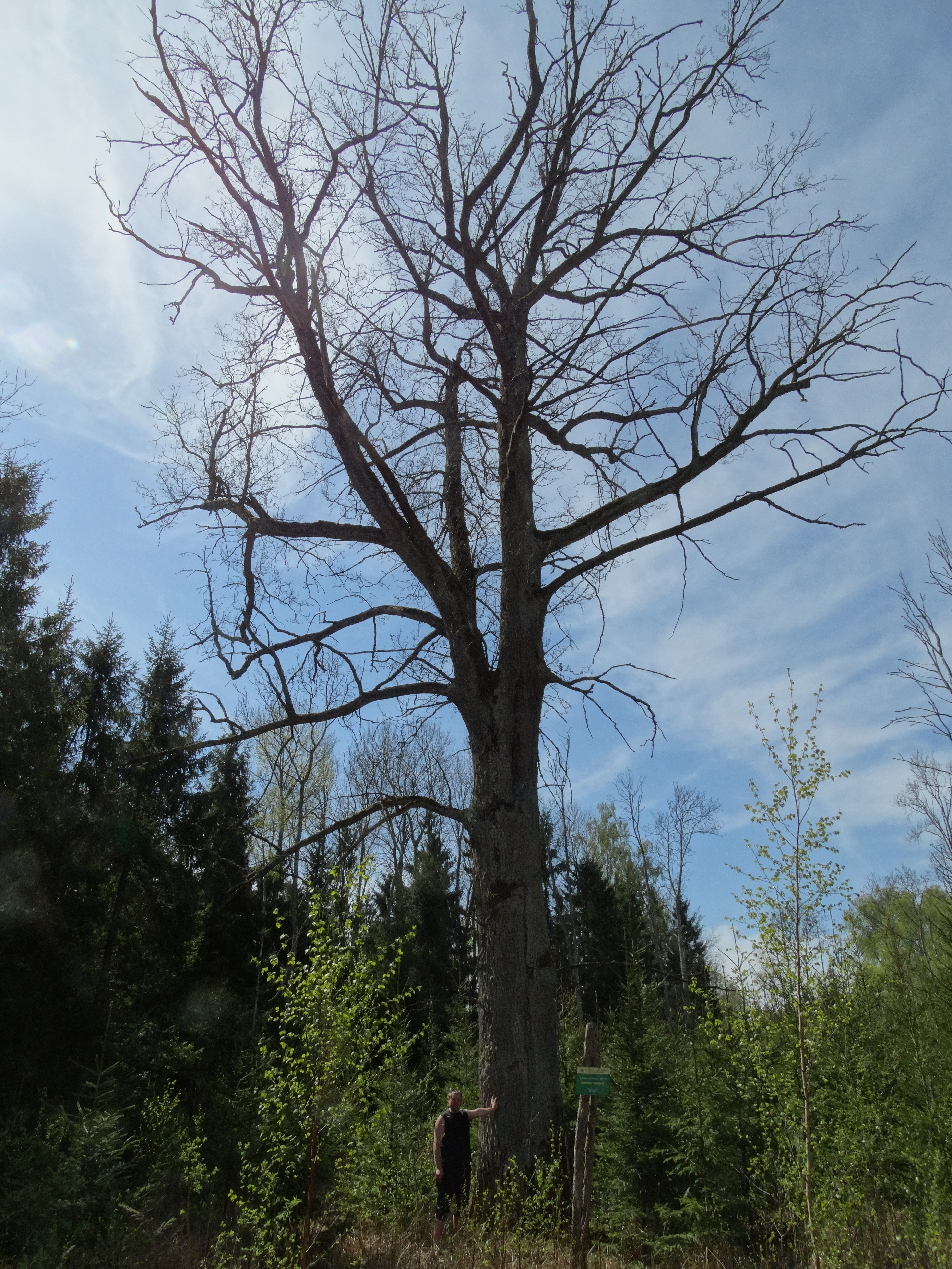 Kurkliai Oak, Radviliškis District, Lithuania